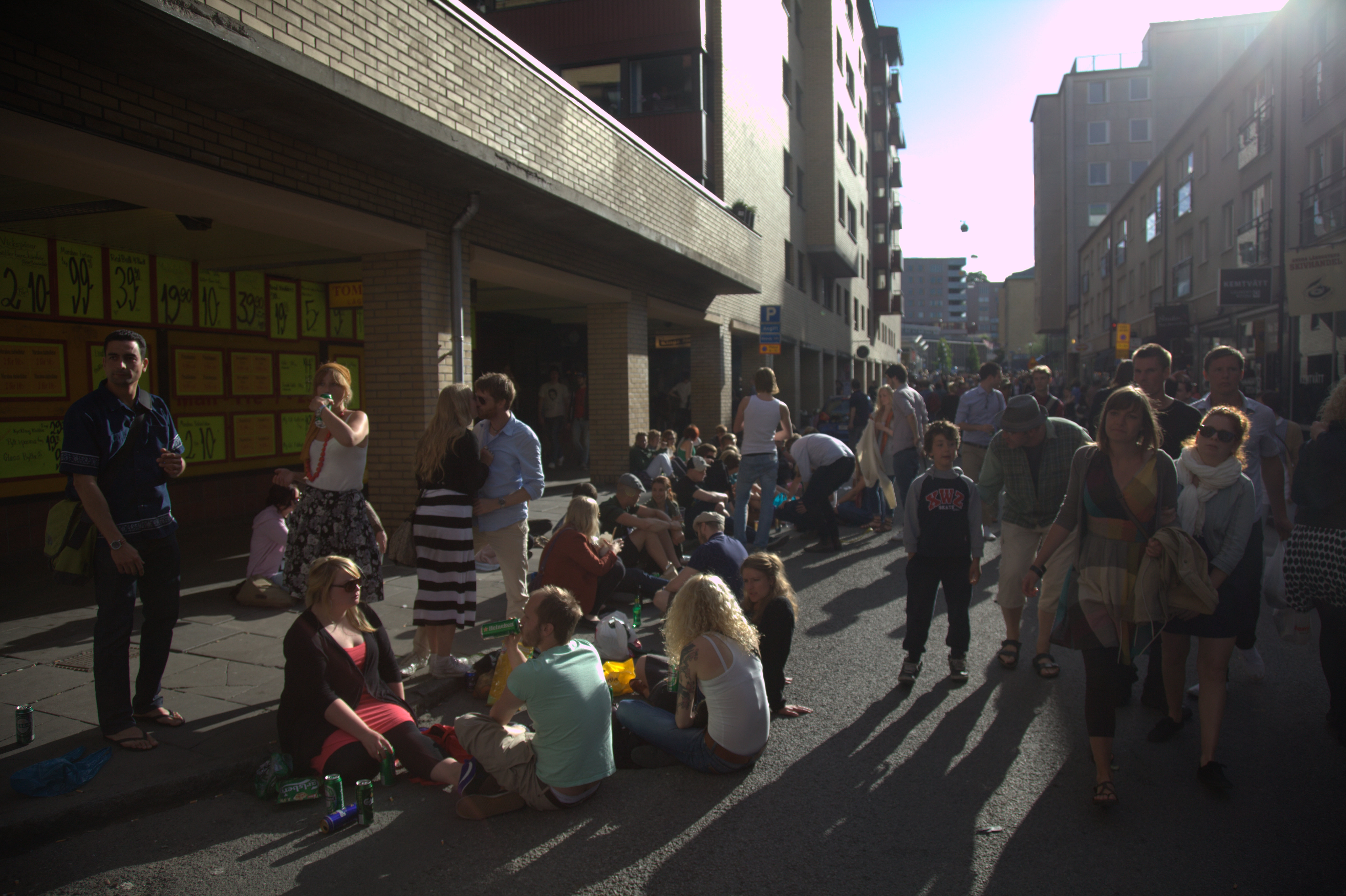 Photo from Andra Långdagen 2010